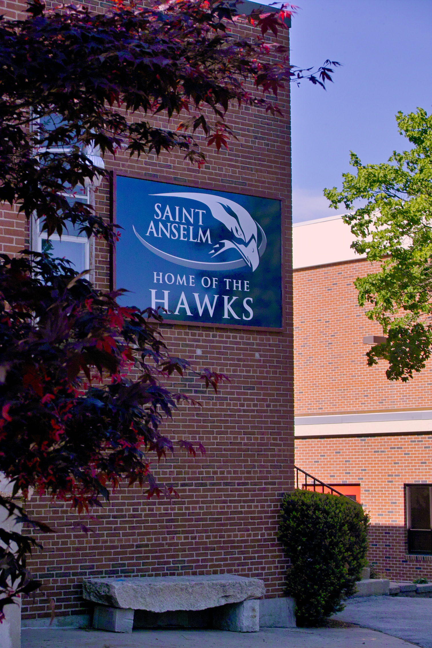 Home of the Hawks